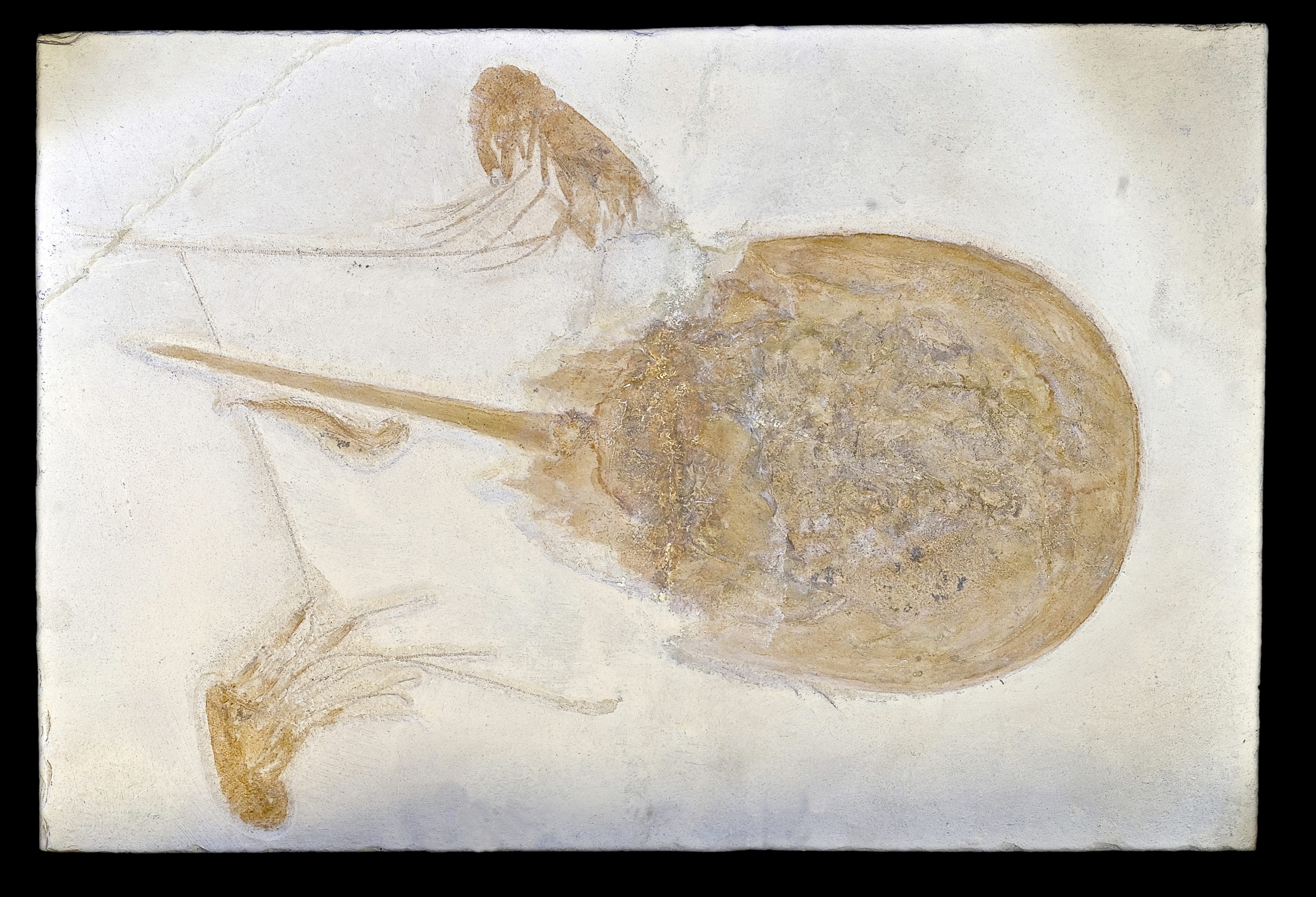 Horseshoe crab (SP.) - Limulidae Locality : An Nammoura Libanum Stage : Cenomanian (from -99.6 to - 93.5 million year ago) Size : 32cm